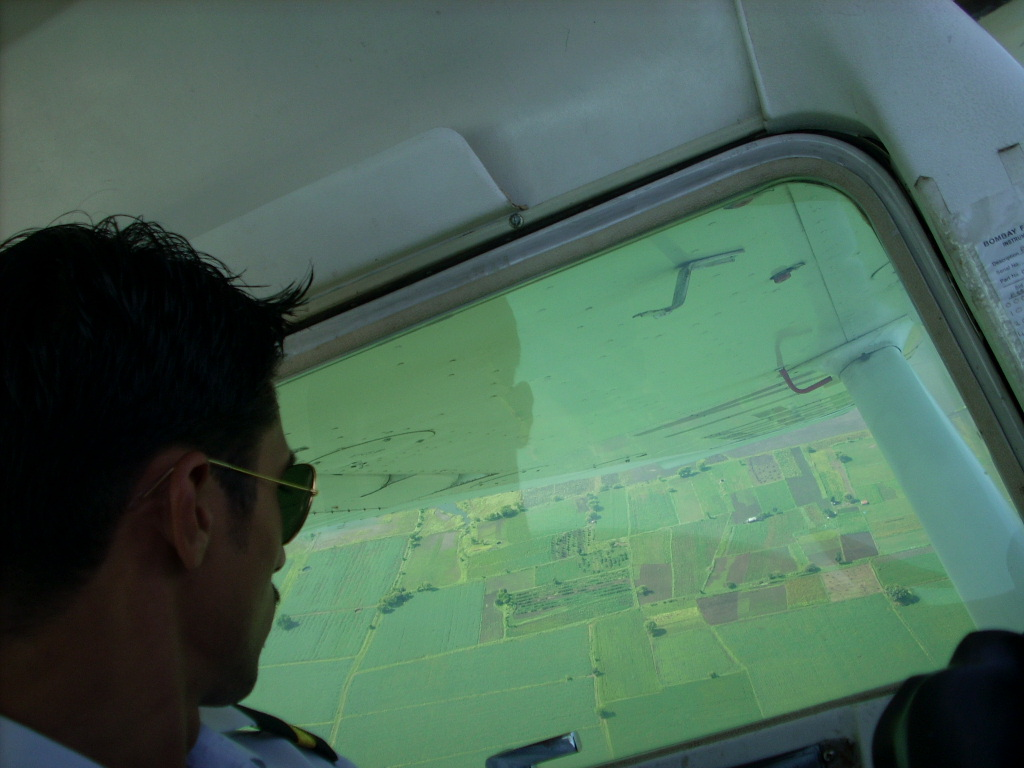 Capt. Samarth Singh of the Federation of Indian Pilots and Hybrid Content over the skies of Indore, India in 2007.